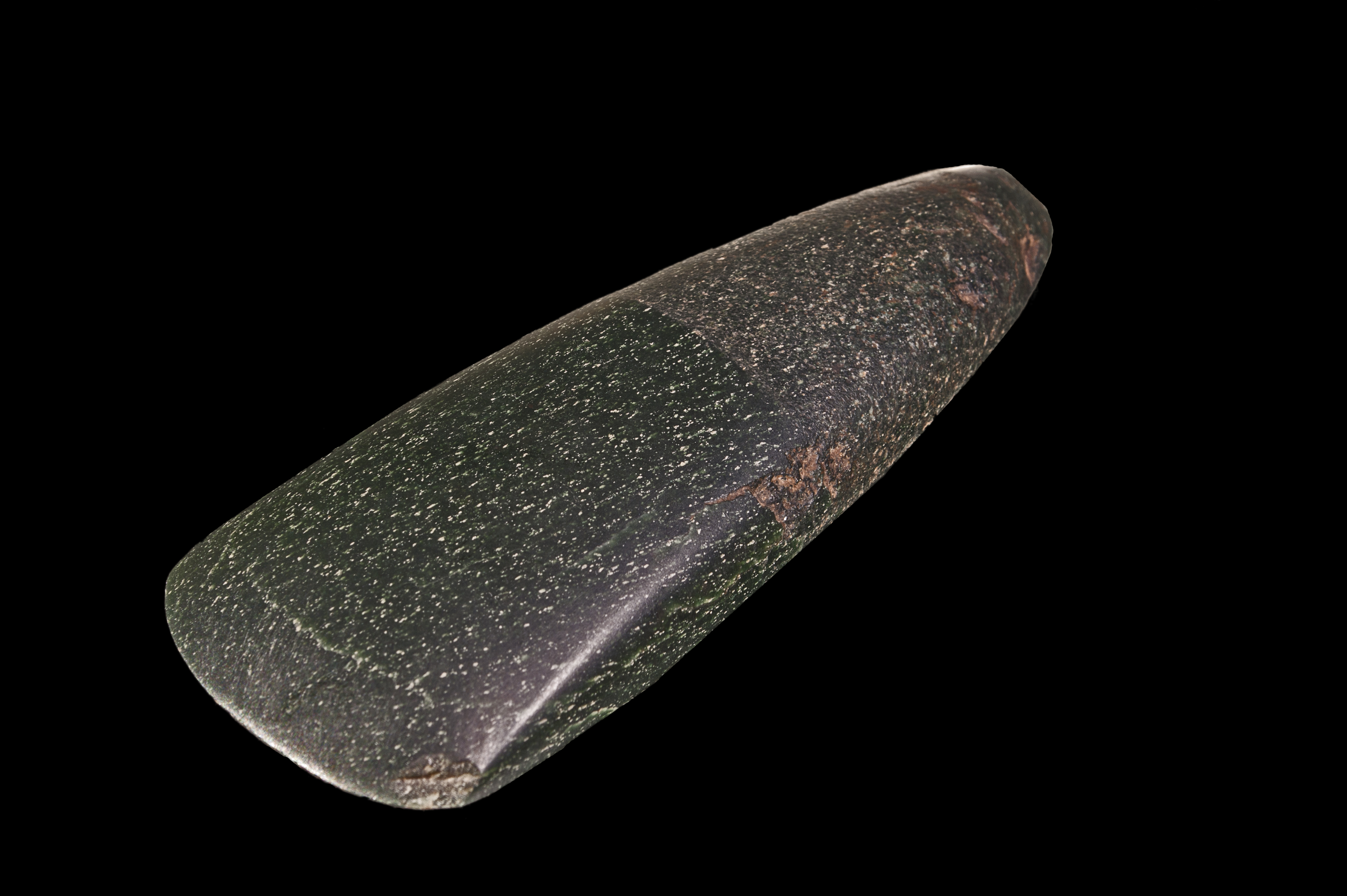 perspective view